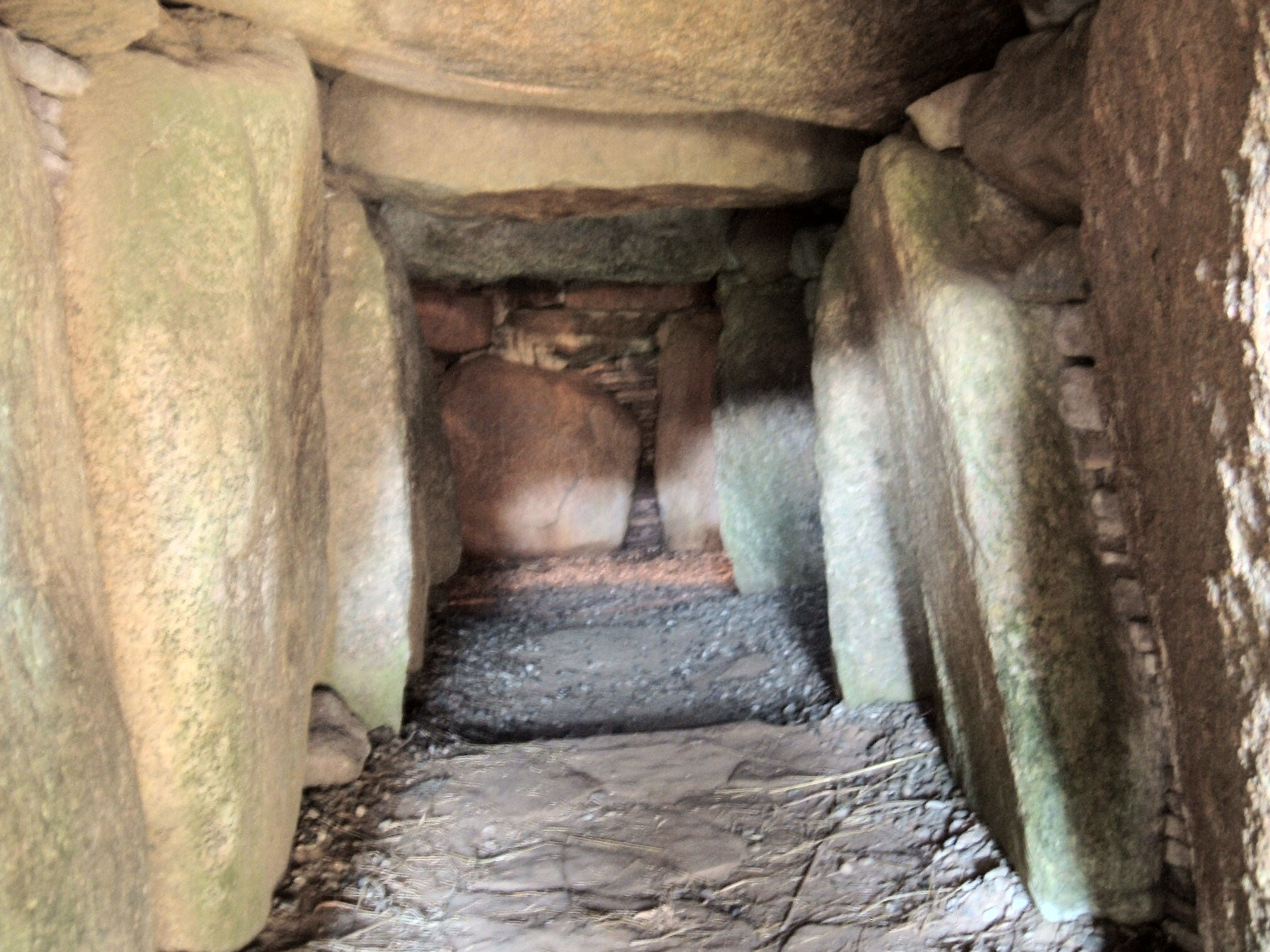 Klekkende Høj passage grave on the island of Møn in Denmark. View looking north from southern end of south tomb. Dividing wall to north tomb and parts of north tomb can be seen. Taken by contributor, July 2006.